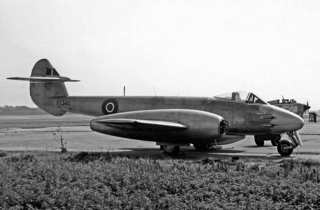 Operational Gloster Meteor F.4 VT340 at Manchester (Ringway) Airport in July 1955